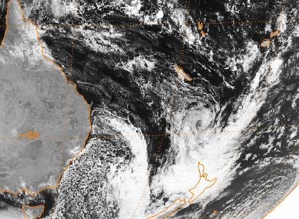 Satellite image of the transitioning Cyclone Sose approaching the North Island of New Zealand at 0000 UTC on April 12, 2001.